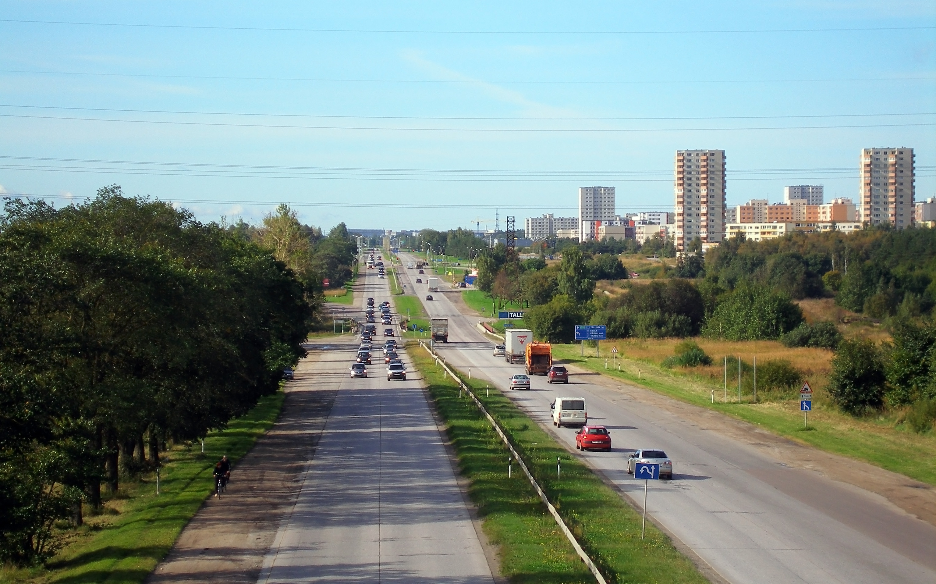 Tallinn-Narva highway (E20) just outside Tallinn in Iru.